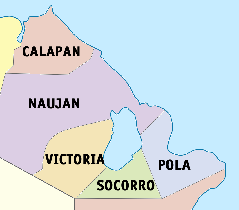 Naujan lake and surrounding settlements.